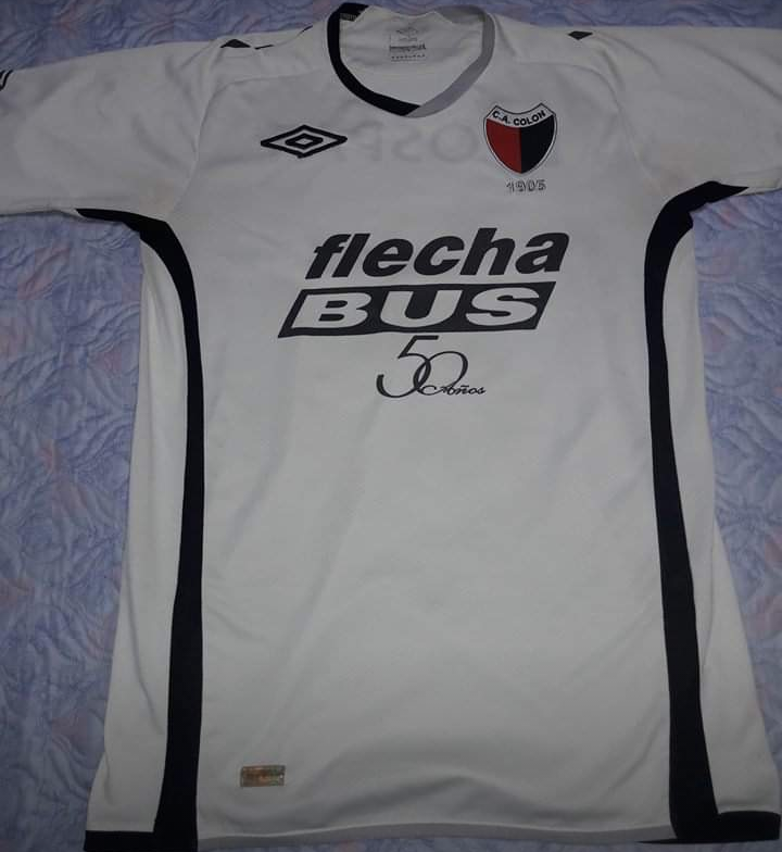 Alternative t-shirt of Colón 2009-10